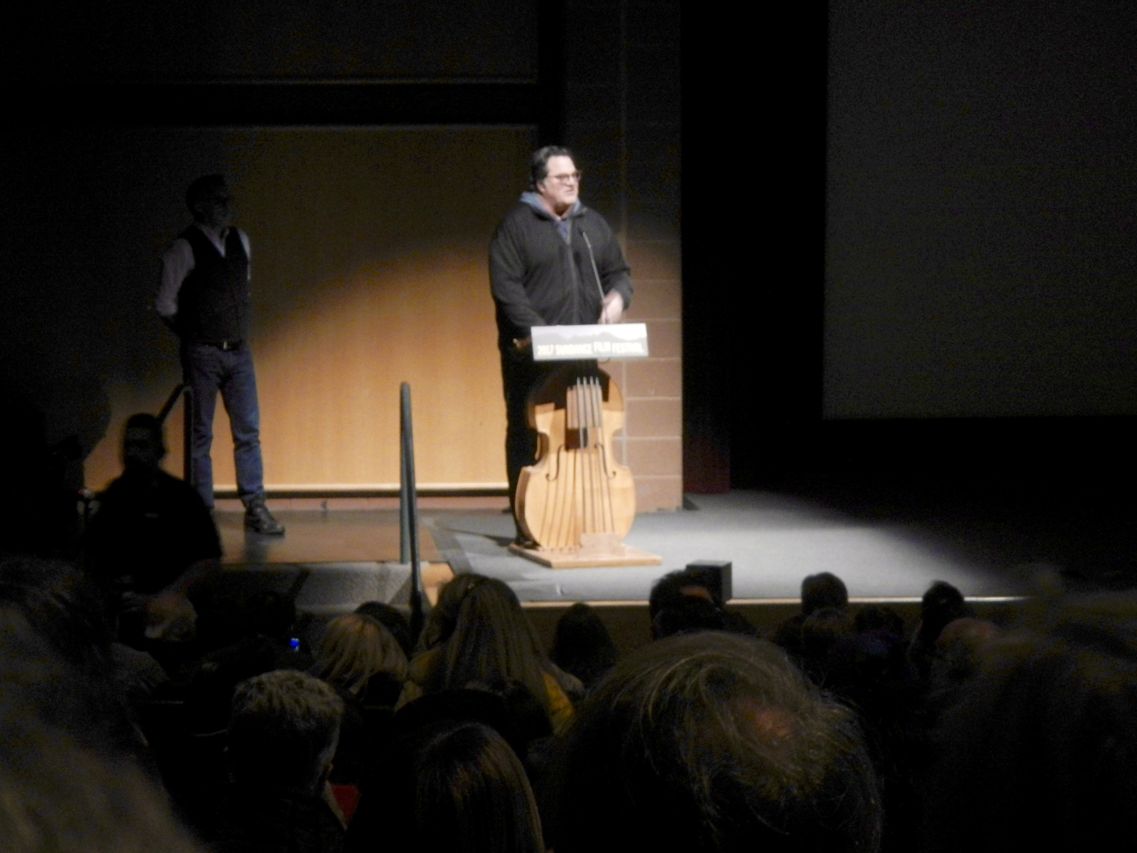 "The Last Word," Sundance 2017, Park City UT